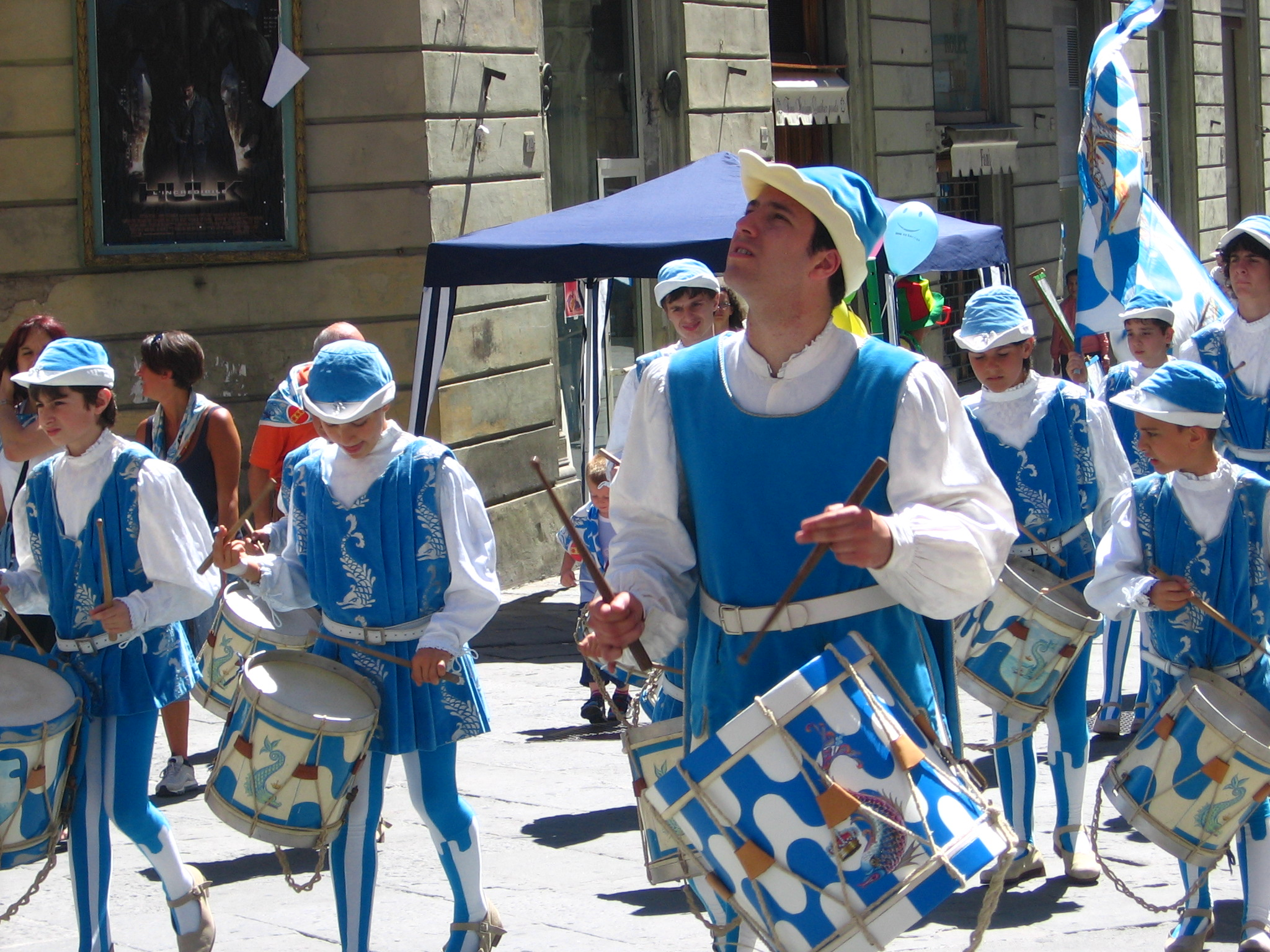 Members of the Sienese contrada Onda parading in ceremonial garb.